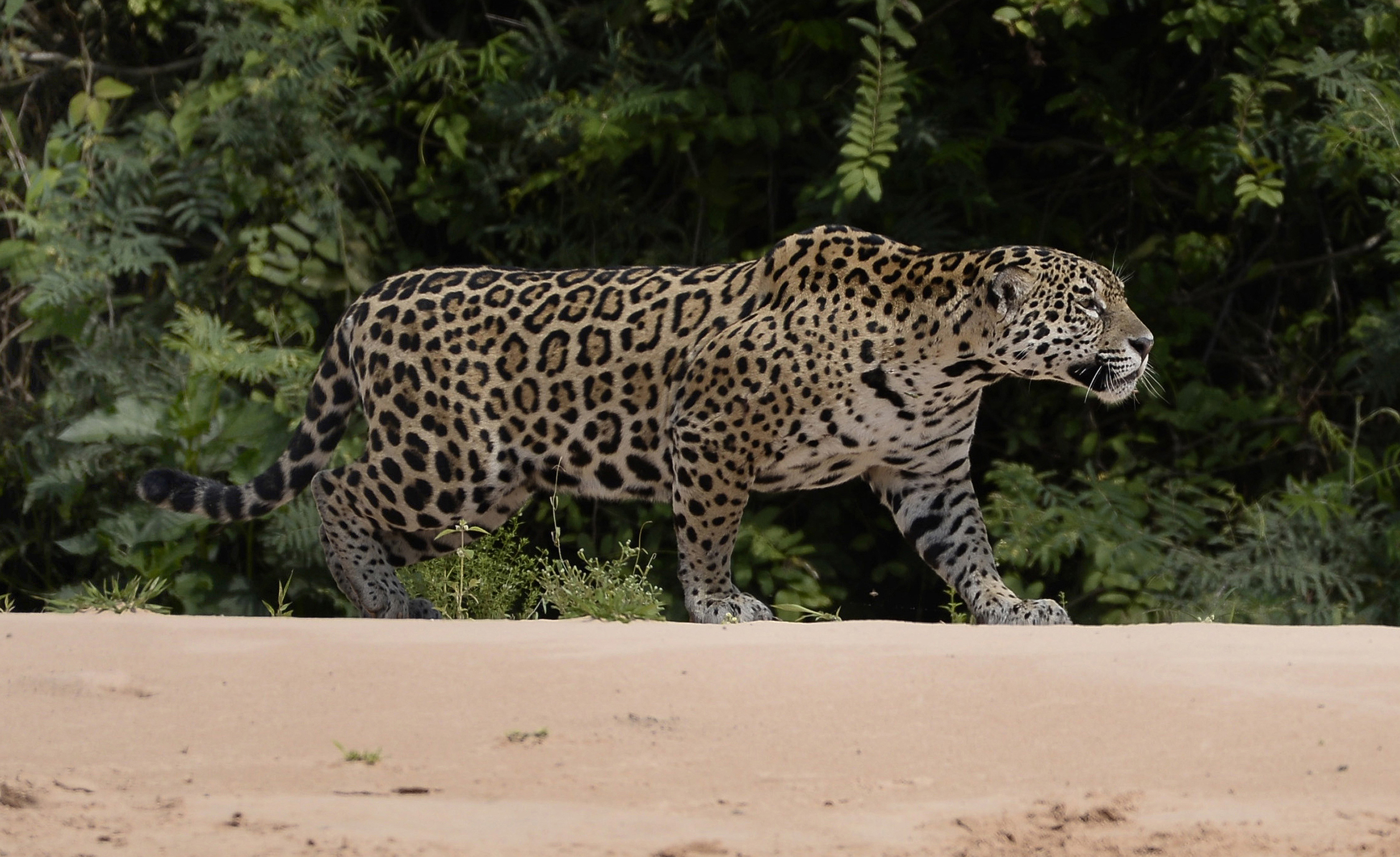 20151107 Nos ultima dia em Pantanal do norte esta tempo. En jaguar som haft uppsikt över några kapybaror smyger fram men då har kapybarorna upptäckt faran och simmat iväg till en annan strandremsa. Uploaded new image due to the previous was too small for the Contest. Photo by: Jan Fleischmann This is an image of the Biosphere Reserve or a Geopark: Lake Vänern Archipelago